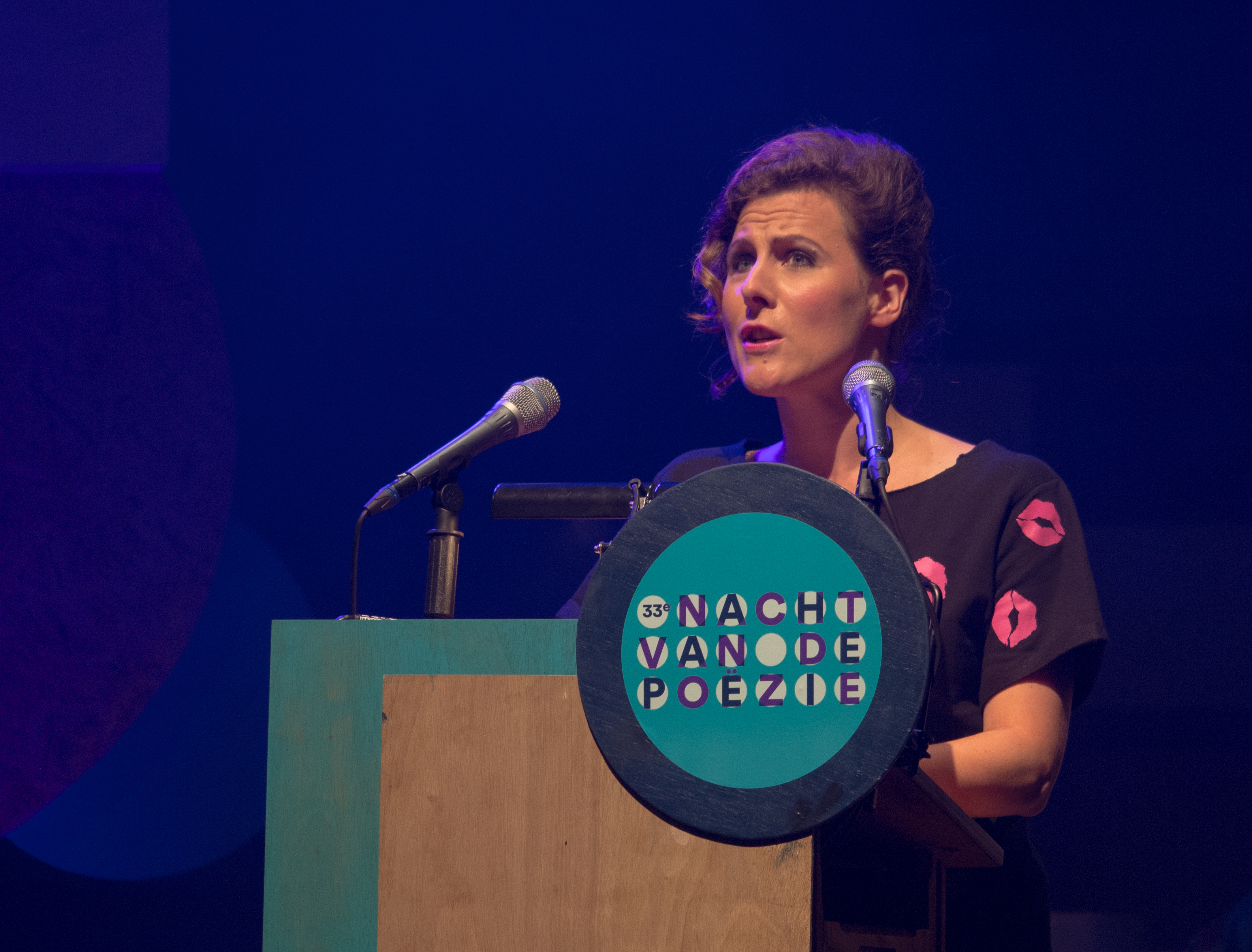 Ester Naomi Perquin presenting the Night of Poetry